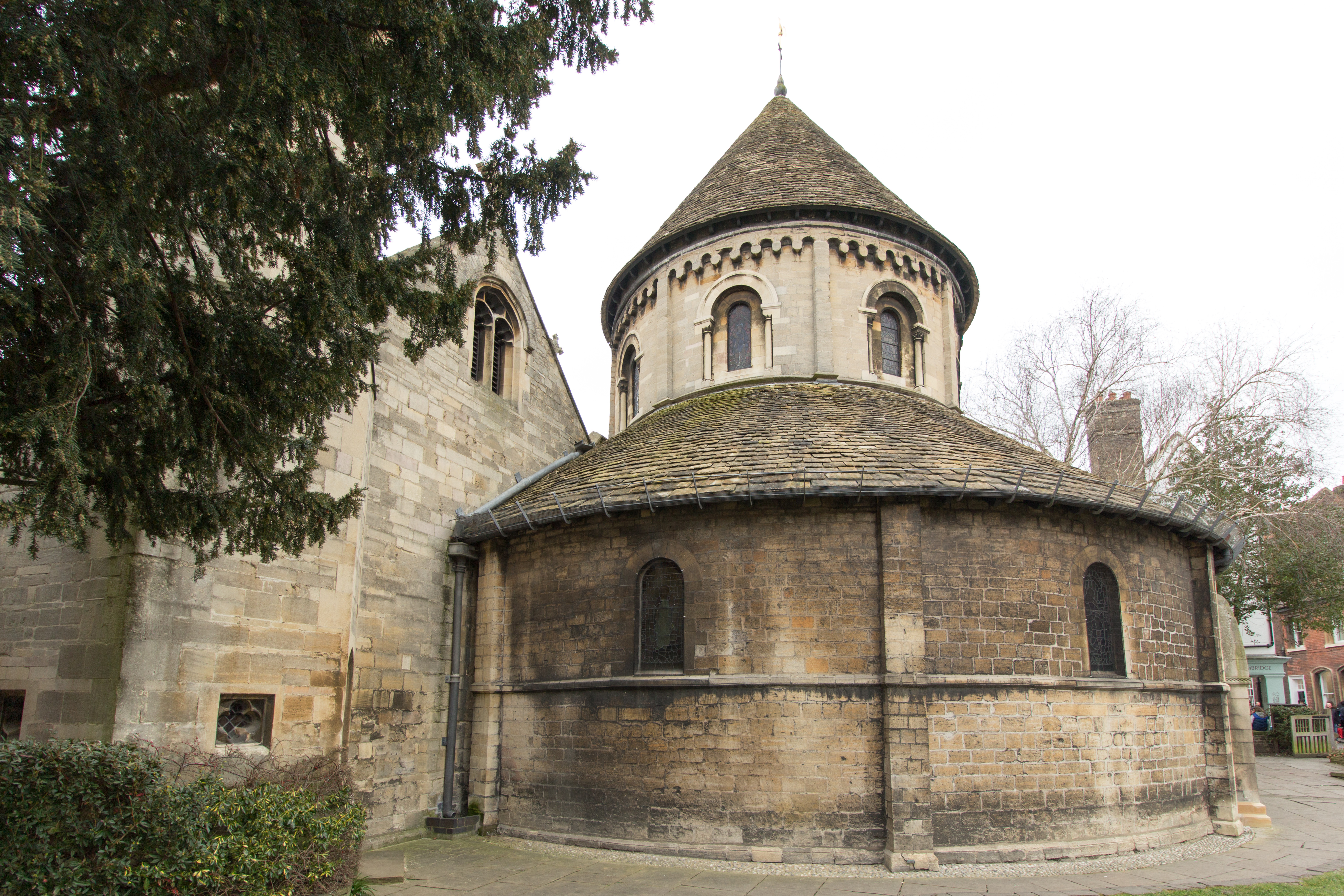 The Church of the Holy Sepulchre in Cambridge, also known as "The Round Church".